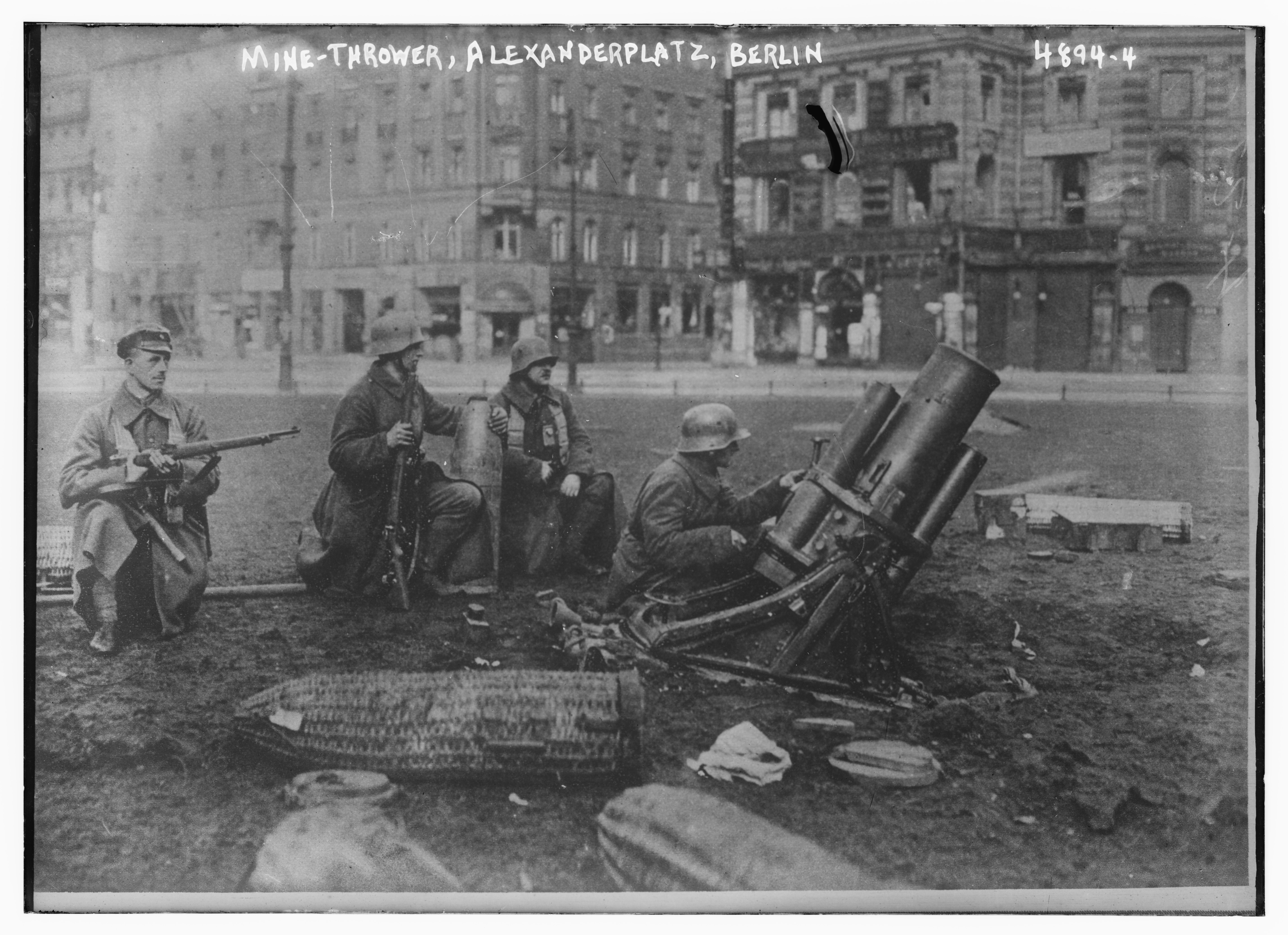 Title: Mine-thrower, Alexanderplatz, Berlin Abstract/medium: 1 negative : glass ; 5 x 7 in. or smaller.